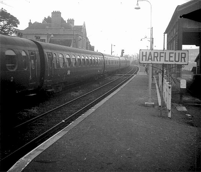 Near the end of steam on the Ouest, a train with "Saucisson" cars is passing through the Harfleur station near Le Havre, its destination. The 25kV aerial was near to be used